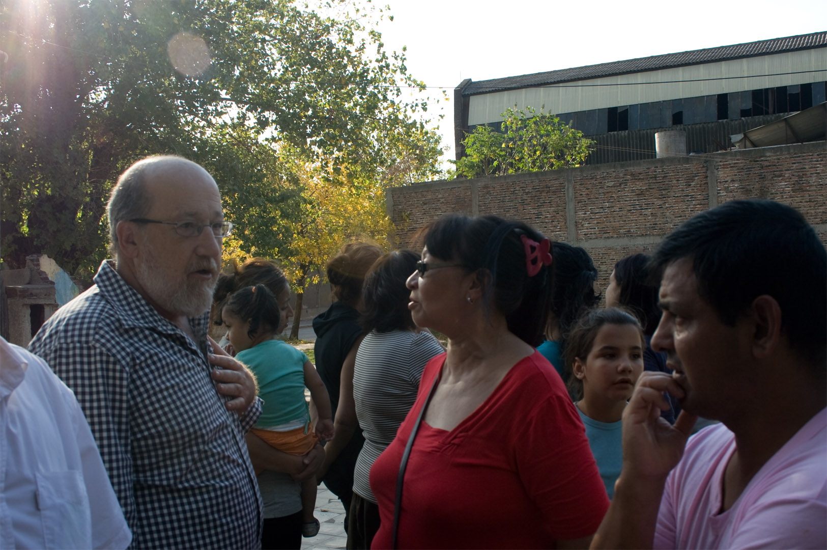 Eduardo Epszteyn charlando con vecinos